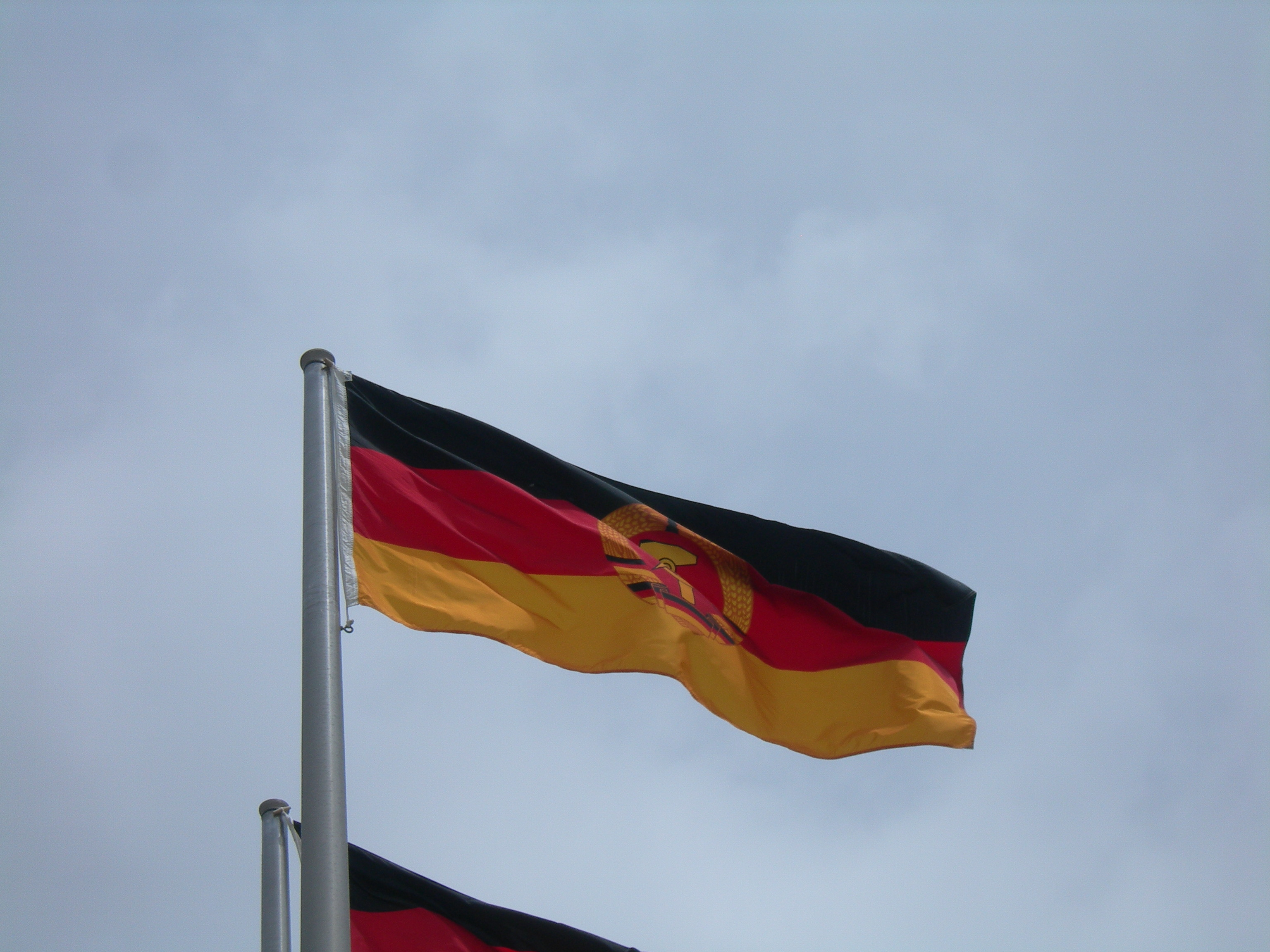 Flag of the GDR, picture taken near to Olympic Stadium in Montreal, QC, Canada.